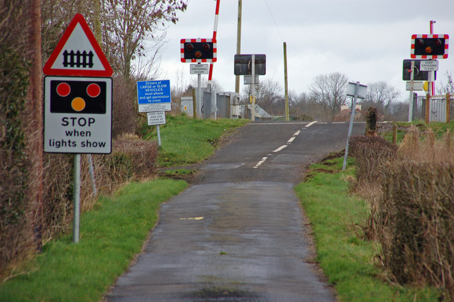 Kellswater North level crossing Kellswater North is an automatic half-barrier level crossing remotely monitored. It carries the Kellswater Road across the Belfast-Londonderry railway. Belfast is to the right.